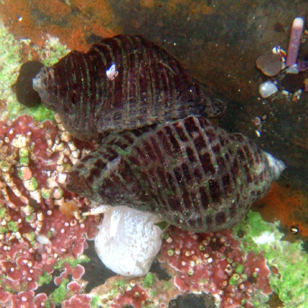 Whelks Acanthina punctulata are mating at tide pools.